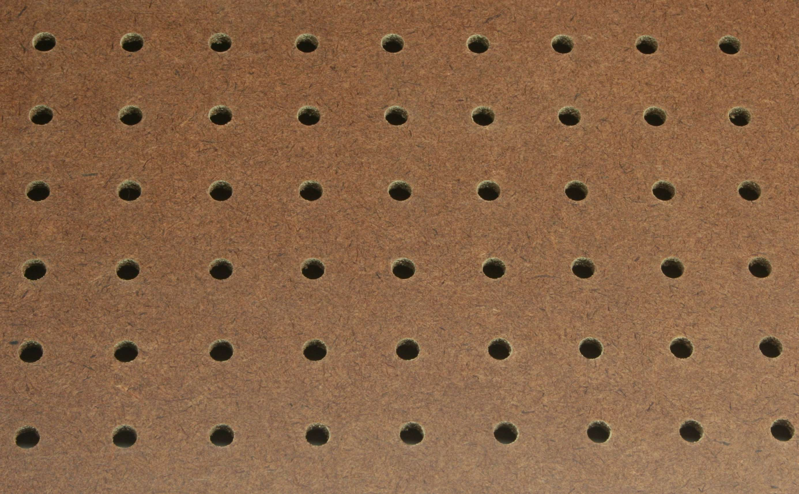 Section of a piece of pegboard, a.k.a. perforated hardboard, with 1/4" holes and 1" spacing. Viewed at a moderate angle.